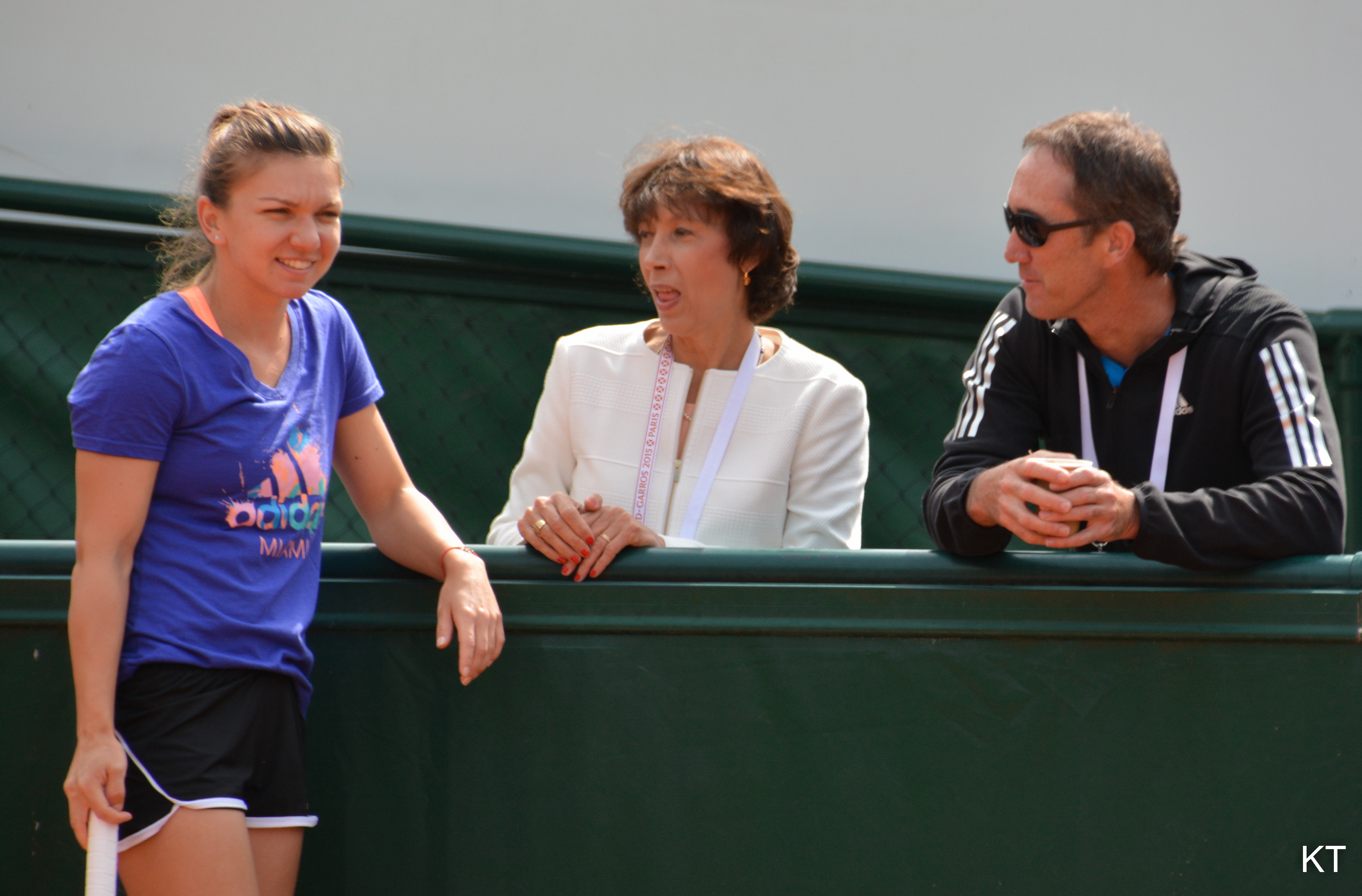 On the practice court. Day 4 of Roland Garros 2015.